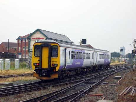 Class 156, Northern Trains, reported to be at Ince and Elton railway station, Cheshire, England